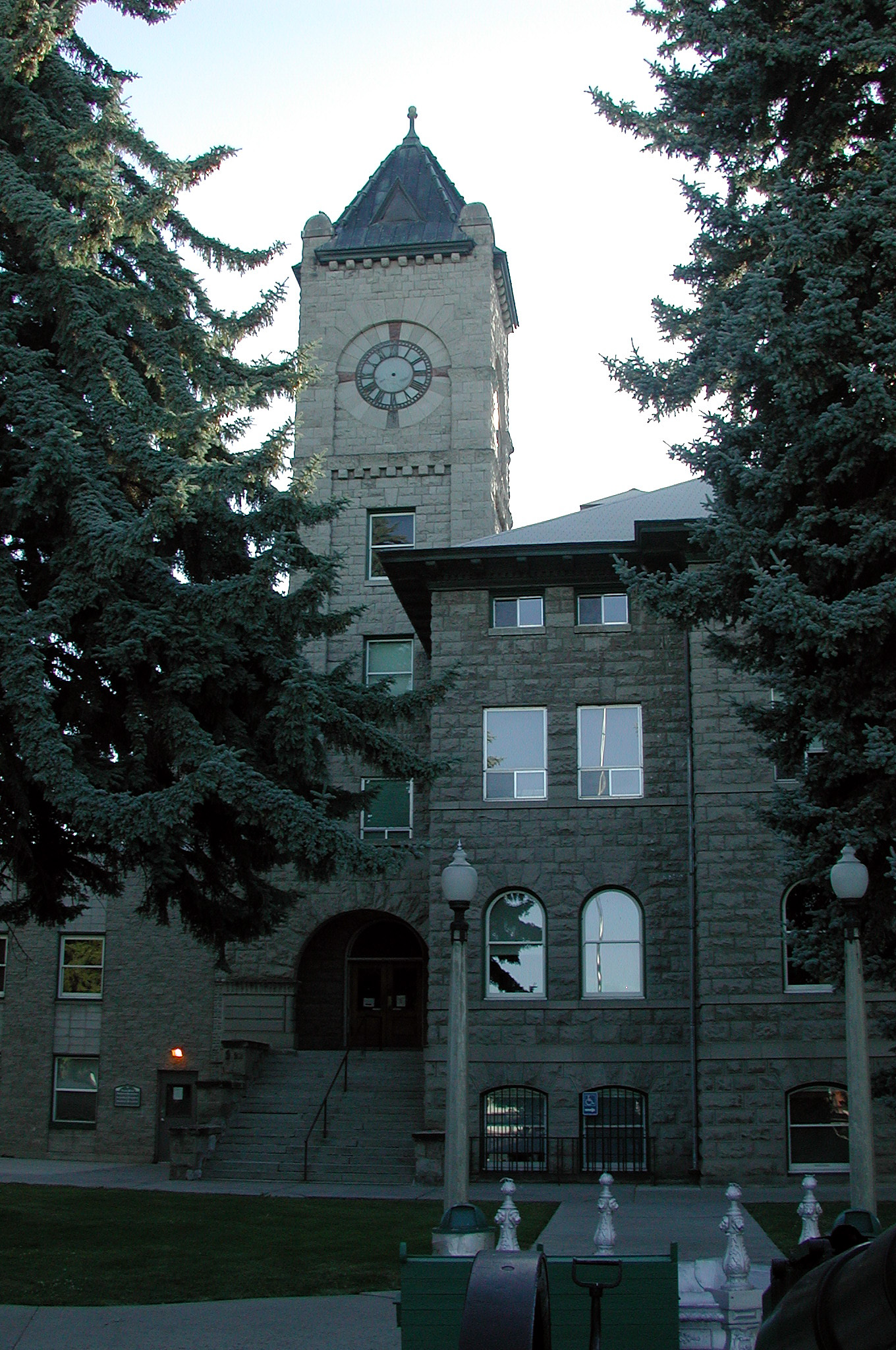 Baker County Courthouse in Baker City, Oregon